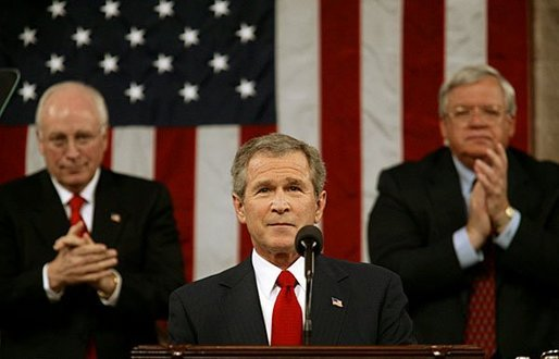 President George W. Bush delivers his State of the Union Address to the nation and a joint session of Congress in the House Chamber of the U.S. Capitol Tuesday, Jan. 20, 2004. White House photo by Eric Draper